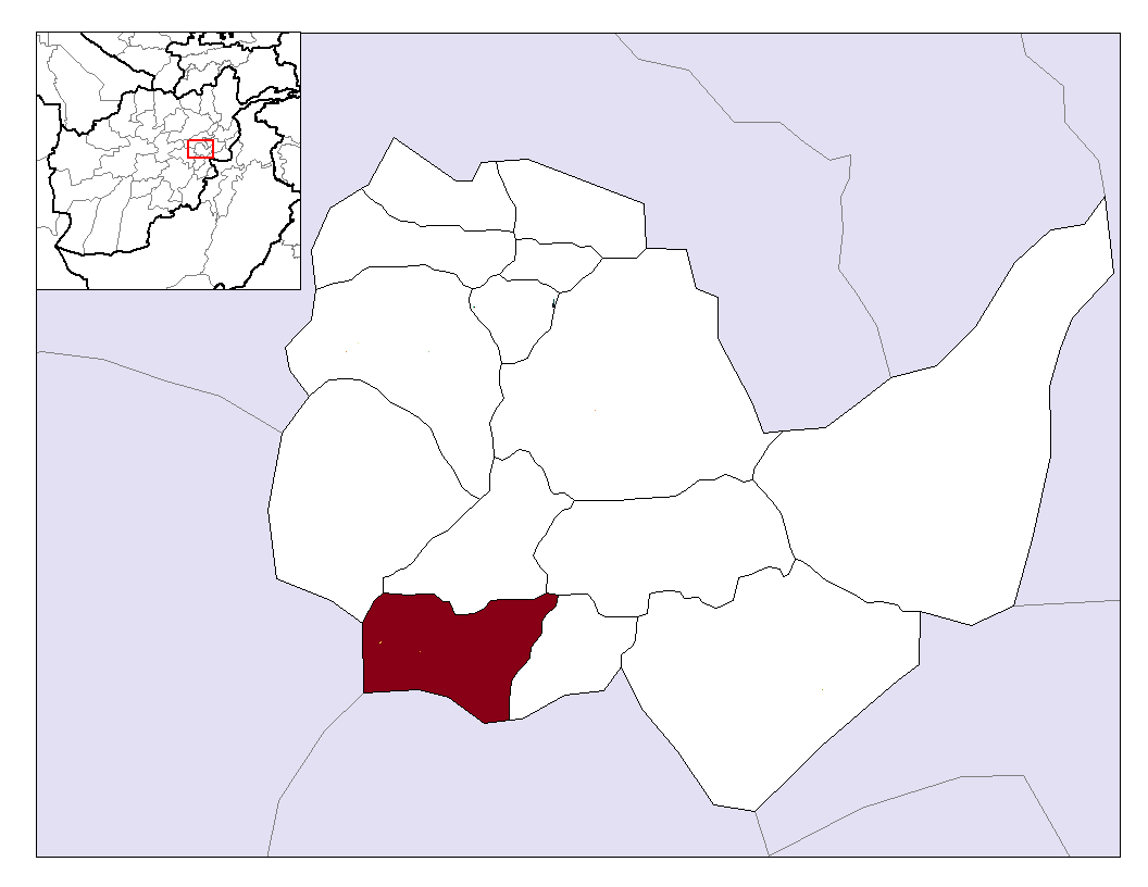 District locator in Kabul Province